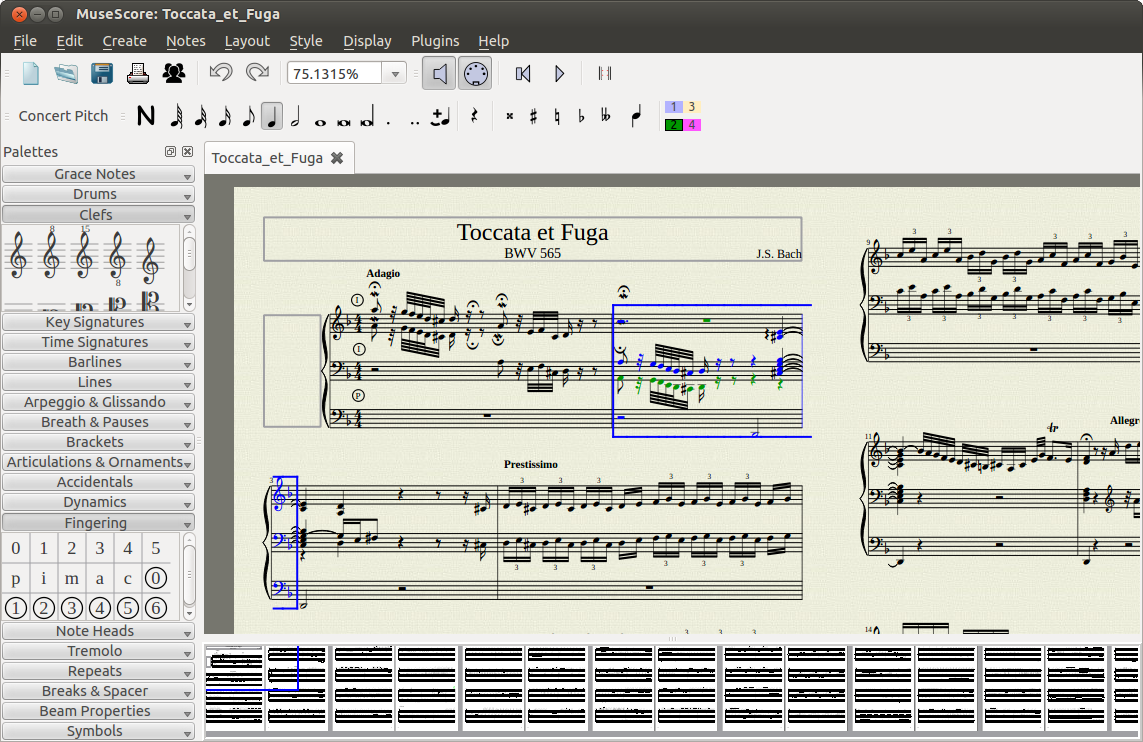 MuseScore 1.2 running on Ubuntu. This was taken from a screenshot where MuseScore 1.2 was running on Ubuntu Linux 12.04. As much functionality as possible has been included, such as the menus, panels, and voice highlighting.